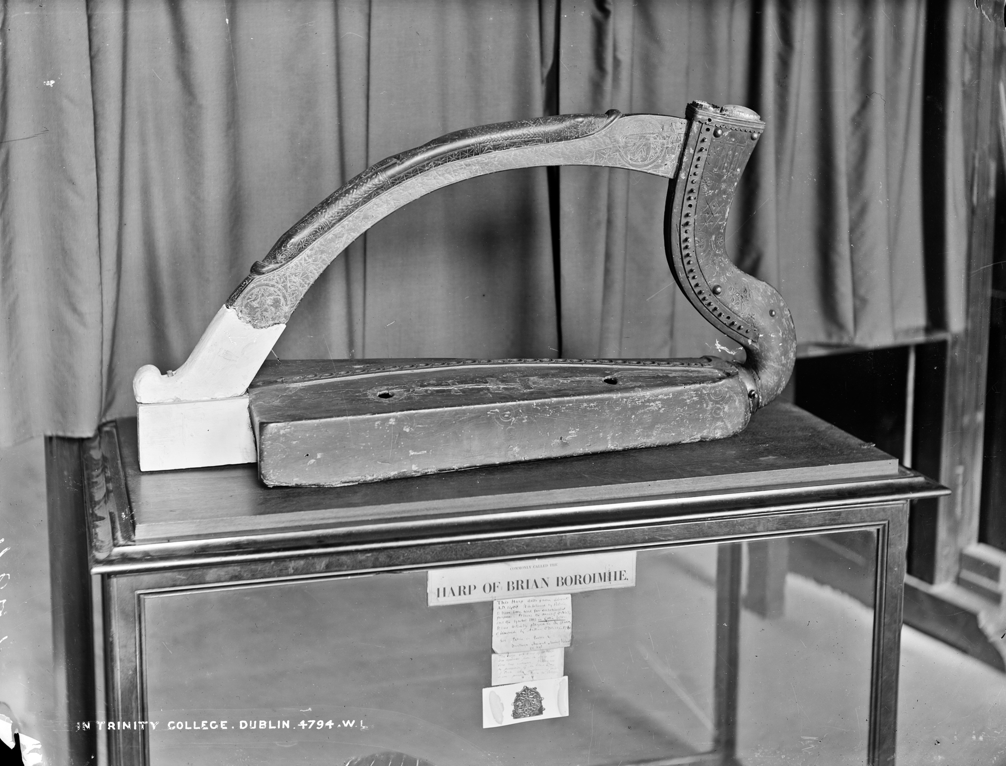 The Harp that once through Tara's halls... Well it may have been heard in Kincora? This ancient harp is in Trinity College, Dublin. Photographer: Robert French Collection: Lawrence Photograph Collection Date: between ca. 1865-1914 NLI Ref: L_ROY_04794 You can also view this image, and many thousands of others, on the NLI’s catalogue at